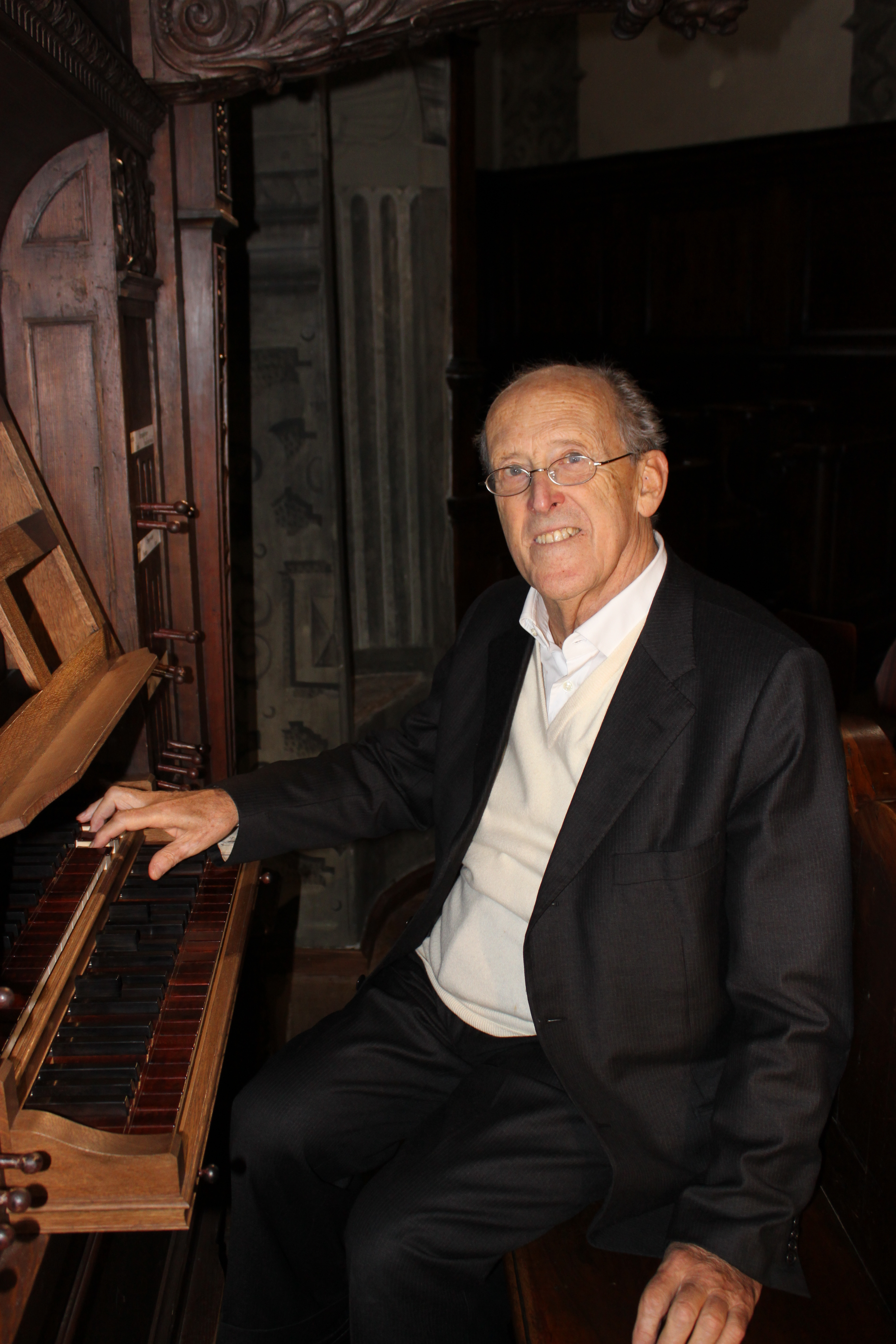 The Italien organist Luigi Ferdinando Tagliavini at the organ of Franciscan church in Vienna, built 1642 by Johann Wöckherl